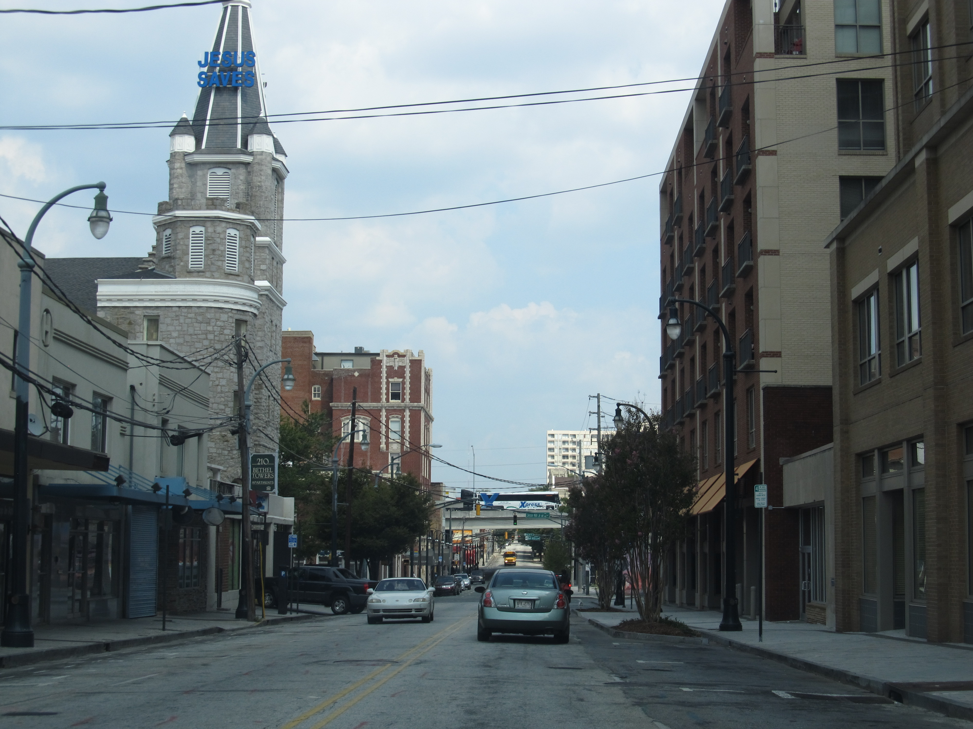 The Sweet Auburn Historic District is a historic African-American neighborhood along Auburn Avenue (originally named Wheat Street) in Atlanta, Georgia. The name Sweet Auburn was coined by John Wesley Dobbs, referring to the "richest Negro street in the world". In addition to Auburn Avenue itself, the surrounding neighborhood, also called Sweet Auburn is one of 242 officially recognized neighborhoods of Atlanta. It is bounded by: Freedom Parkway and the Old Fourth Ward (formerly the separate Bedford Pine neighborhood) on the north; Boulevard and the Old Fourth Ward on the east; the MARTA East-West line and the Oakland and Grant Park neighborhoods on the south; and the Downtown Connector and Downtown Atlanta on the west. The rise of Auburn Avenue as "the" black business district in Atlanta was to a great extent an outcome of the 1906 Atlanta Race Riot. Prior to this time black businesses operated largely in downtown Atlanta — a business district integrated as far as business ownership was concerned. But competition between working-class whites and black for jobs and housing gave rise to fears and tensions. Black businesses started to move from previously integrated business district downtown to the relative safety of the area around the Atlanta University Center west of downtown, and to Auburn Avenue in the Fourth Ward east of downtown. "Sweet" Auburn Avenue became home to Alonzo Herndon's Atlanta Mutual, the city's first black-owned life insurance company, and to a celebrated concentration of black businesses, newspapers, churches, and nightclubs. In 1956, Fortune magazine called Sweet Auburn "the richest Negro street in the world", a phrase originally coined by civil rights leader John Wesley Dobbs. Sweet Auburn and Atlanta's elite black colleges formed the nexus of a prosperous black middle class and upper class which arose despite of enormous social and legal obstacles.